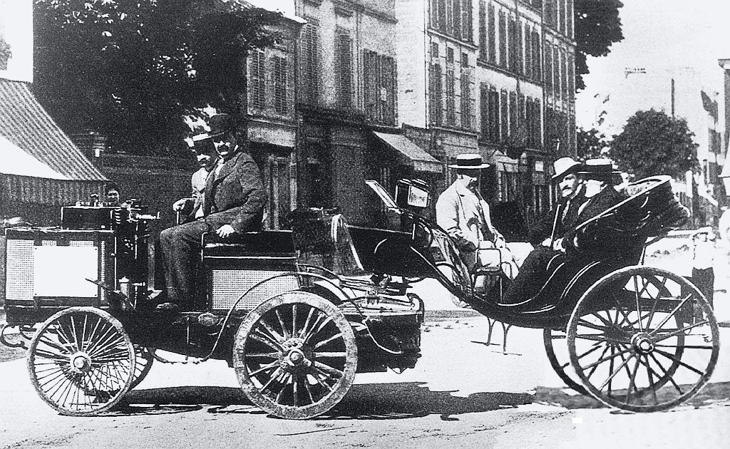 Count Albert de Dion driving De Dion, Bouton & Trépardoux steam tractor at 1894 Paris-Rouen race (1st place, but ruled ineligible for prize). The gentleman at far right is Marquis Louis Albert Guillaume de Dion de Wandonne, the father of the automobile pioneer.